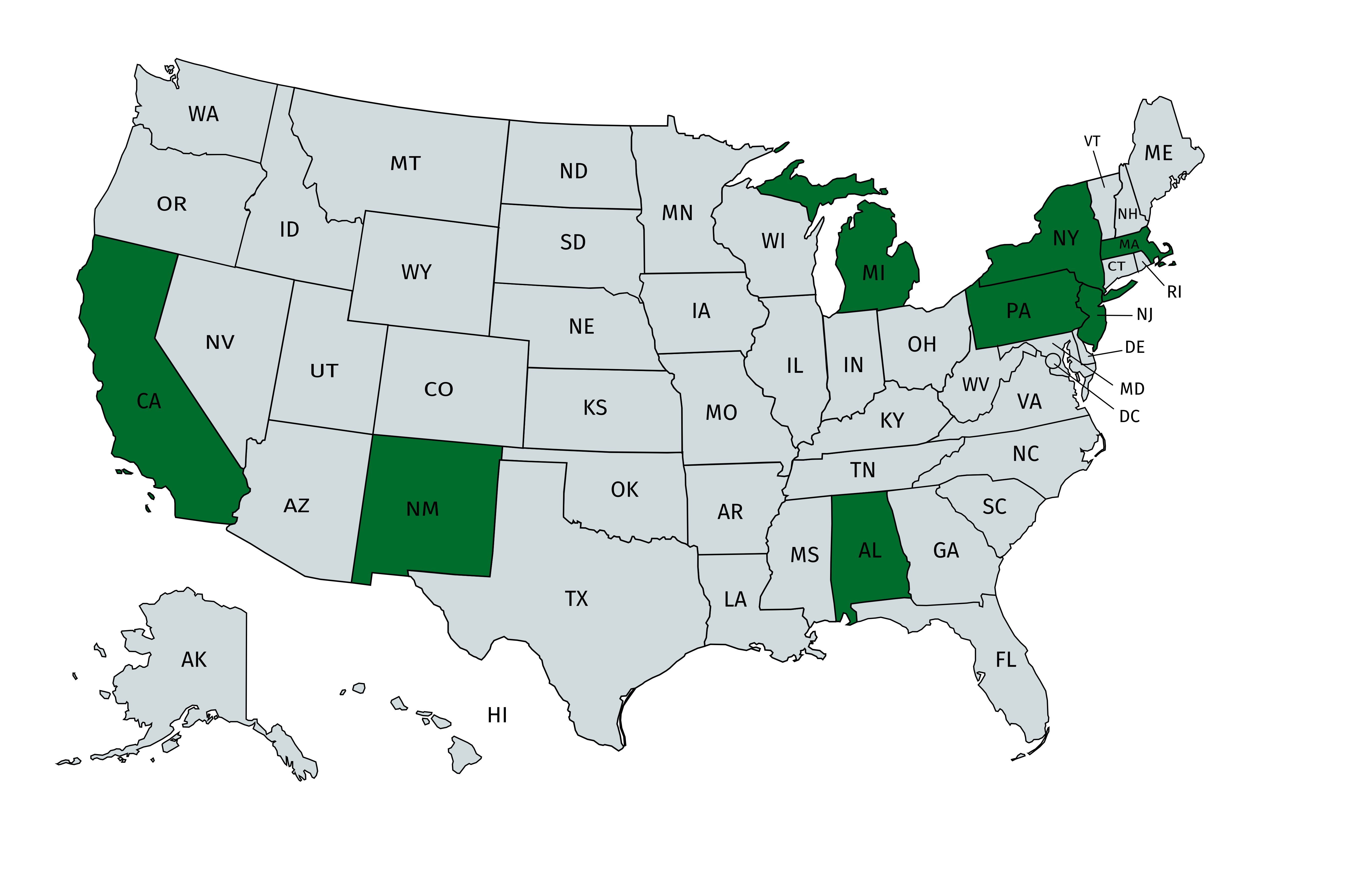 Map showing states represented at the 1956 Little League World Series, which was held from August 21 to August 24 in Williamsport, Pennsylvania.